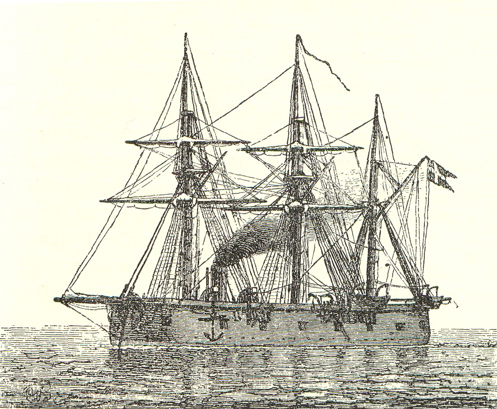 Danish ironclad battleship Dannebrog, after being rebuilt in 1864.